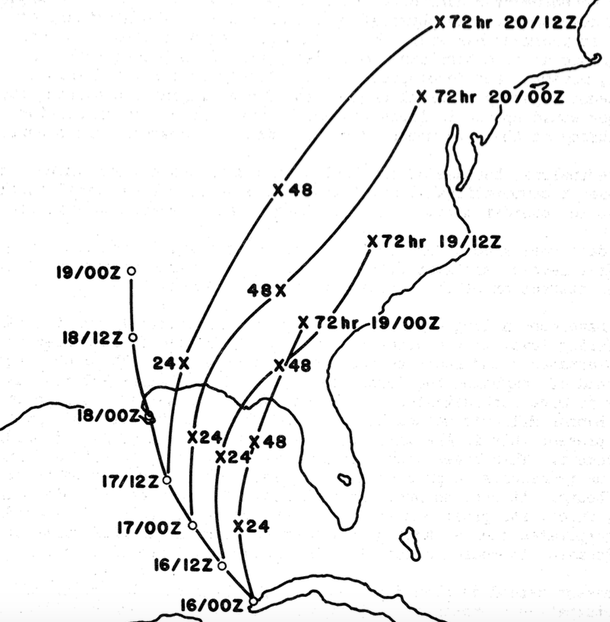 This is from pg 9 of the document, showing the track forecasts for Camille from its passing of westernmost Cuba onward